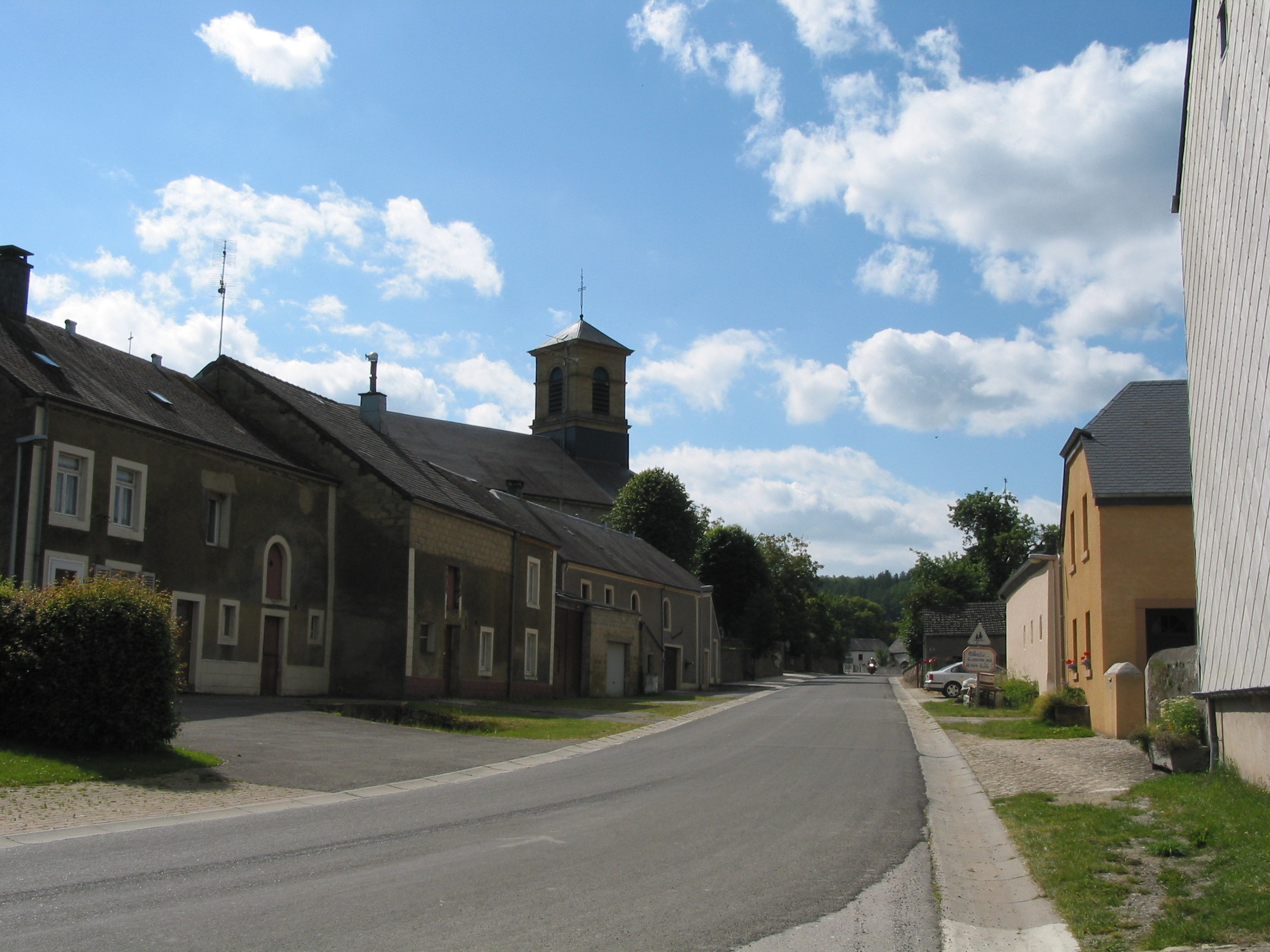 Nobressart (Belgium), rue du Centre.